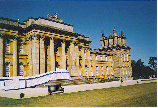 Blenheim Palace, the South Front. The entrance of massive Corinthian columns faces onto a huge lawn.